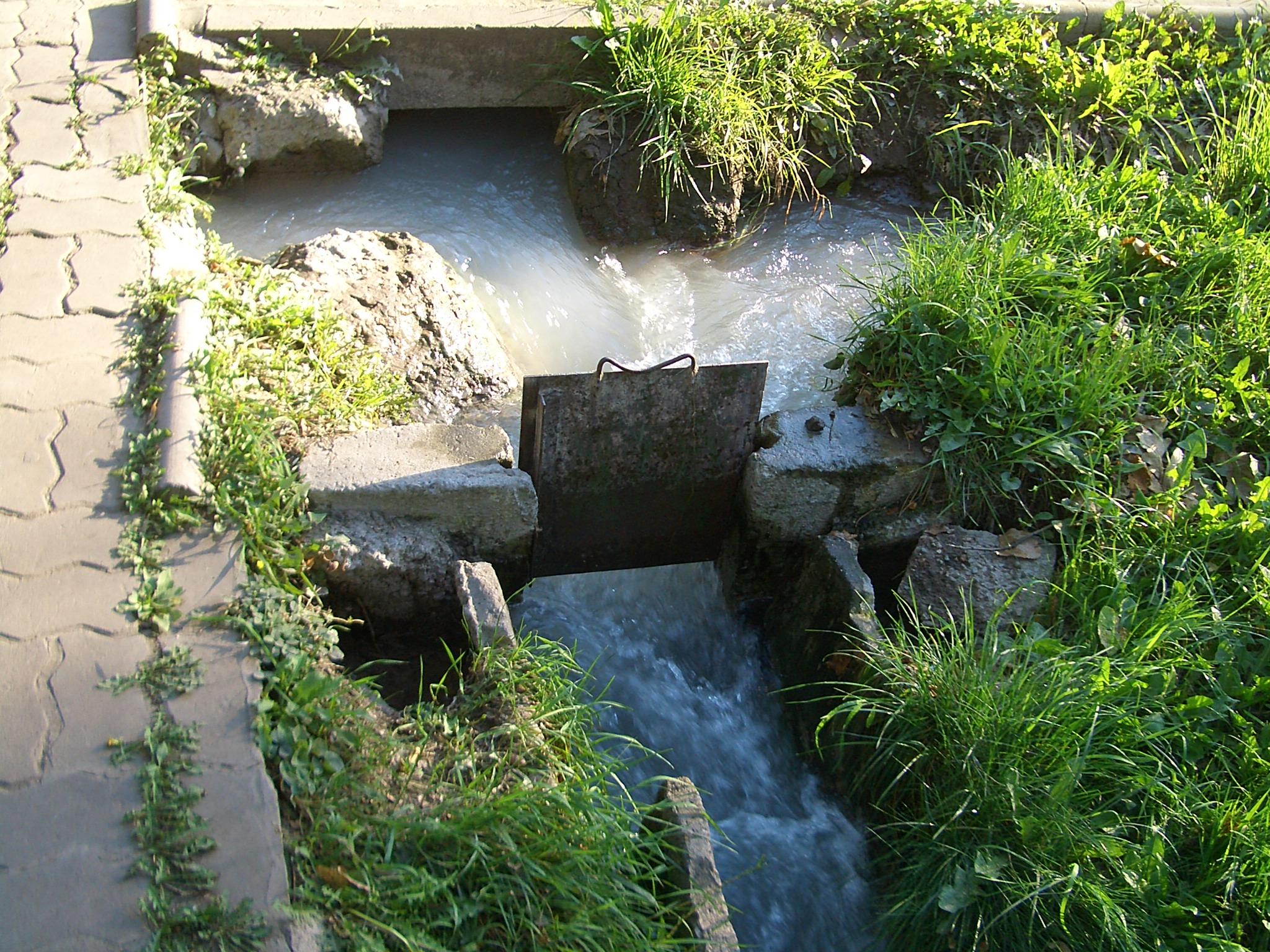 A flow control gate on a small irrigation ditch used for watering vegetation in Erkindik Blvd in Bishkek